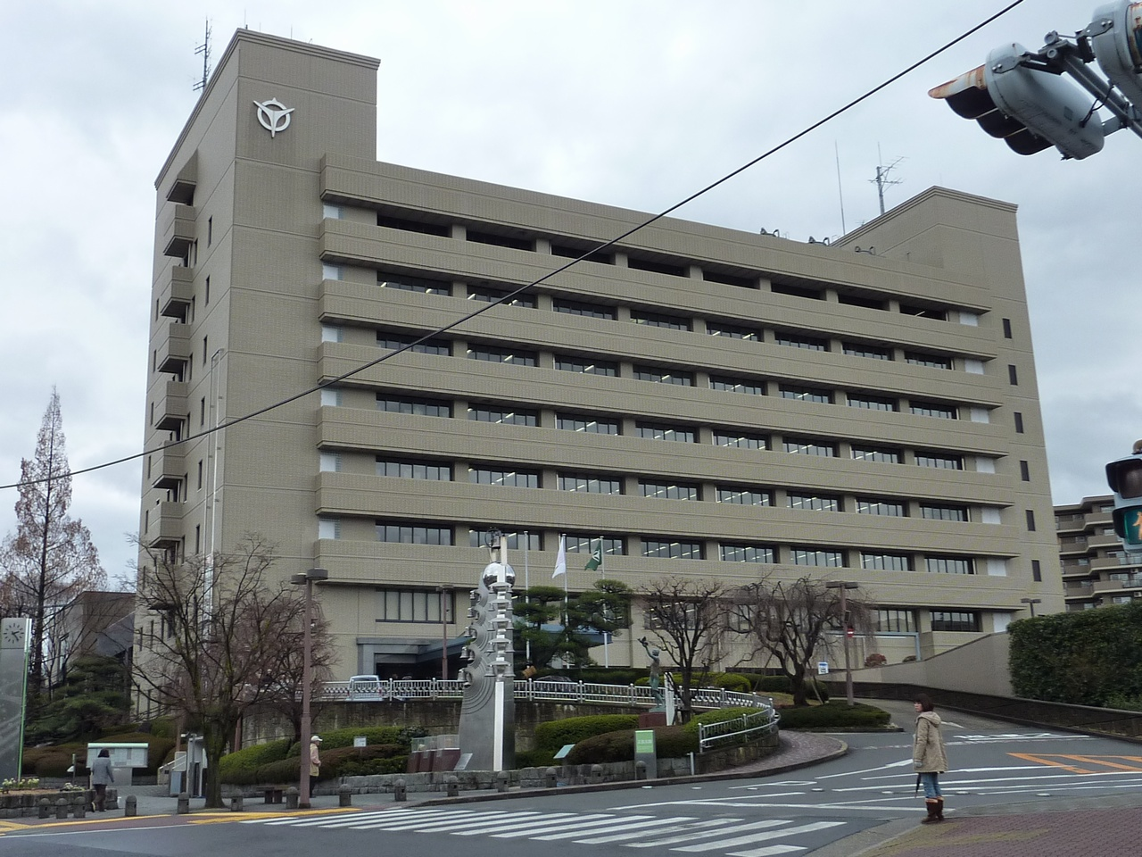 Uji City Office (Kyoto Prefecture, Japan)